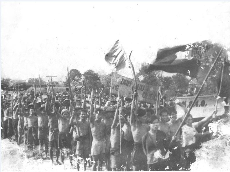 Vietnam troop 2